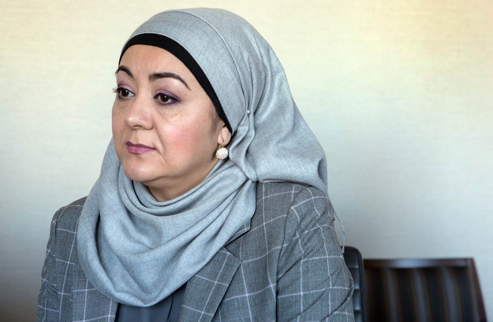 Uyghurs at The Department of State. Left to Right: Gulchehra Hoja.